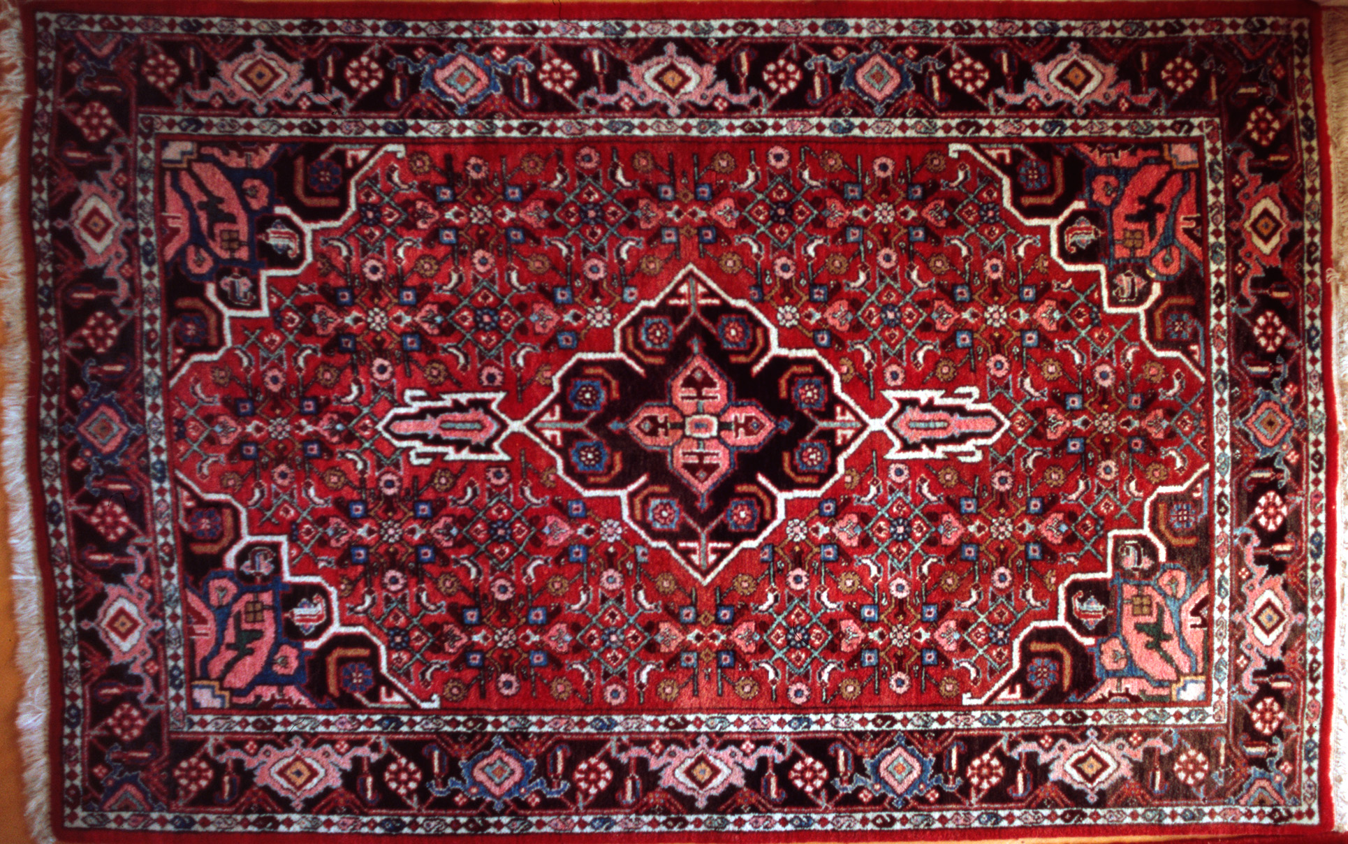 Modern rug from Bidjar, Iranish Kurdistan